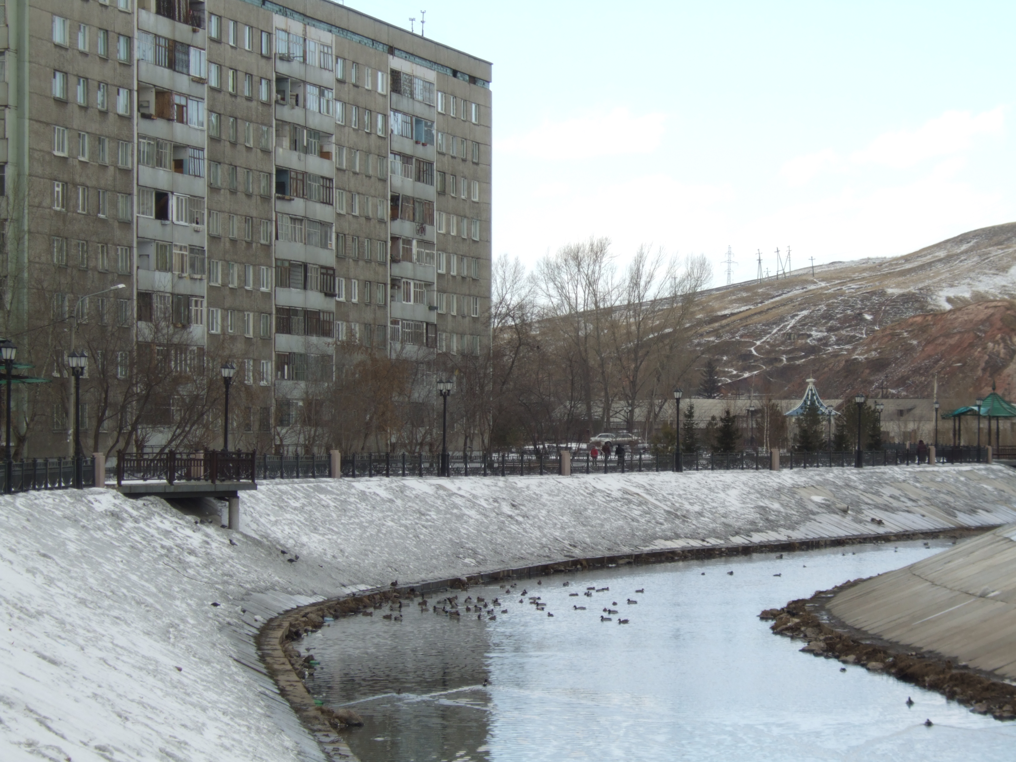 Wintering ducks on the Kacha River, near the Krasnoyarsk central bazaar.